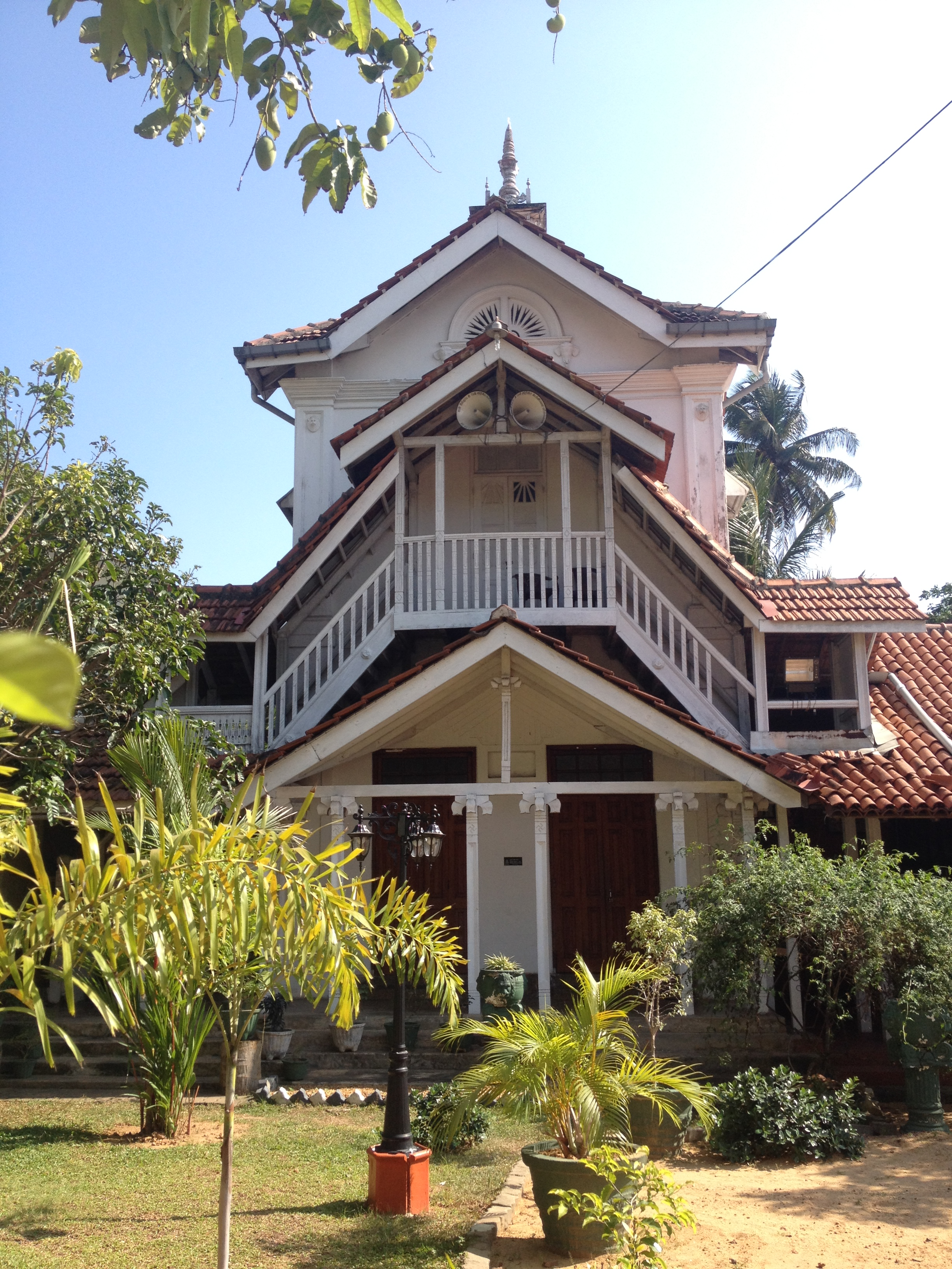 The awasa geya at the Subodharama (Karagampitiya) temple, Sri Lanka.